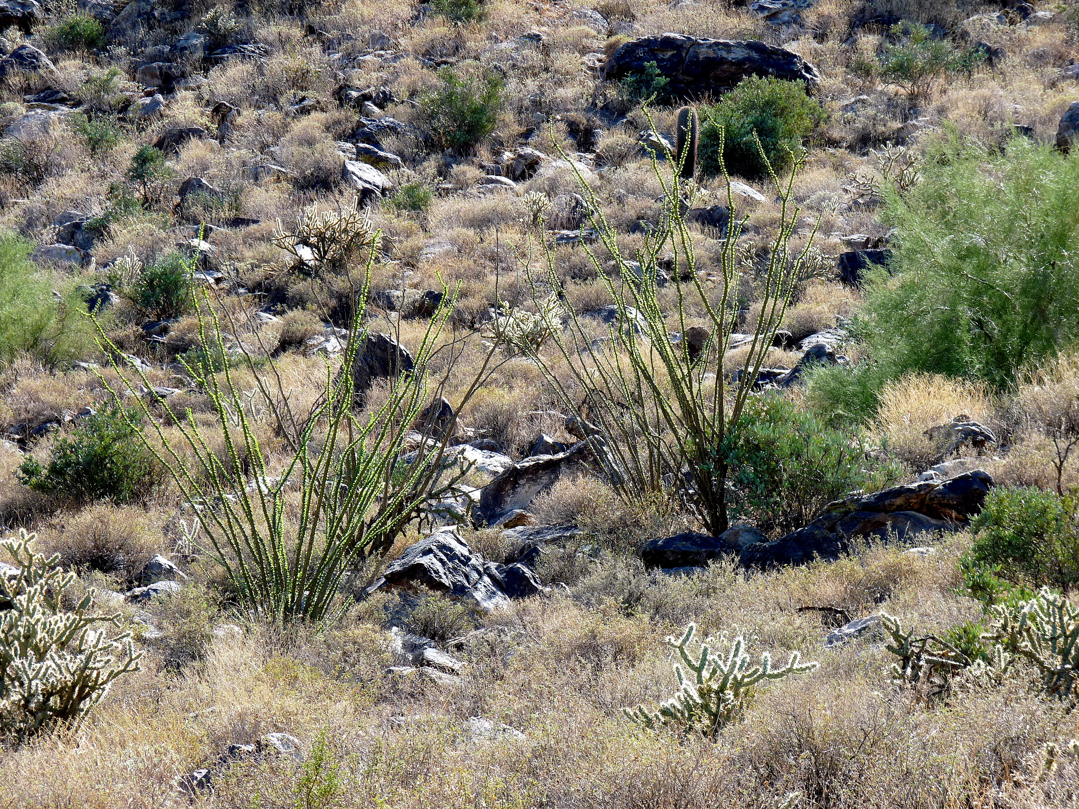 The image represents two Ocotillo plants.